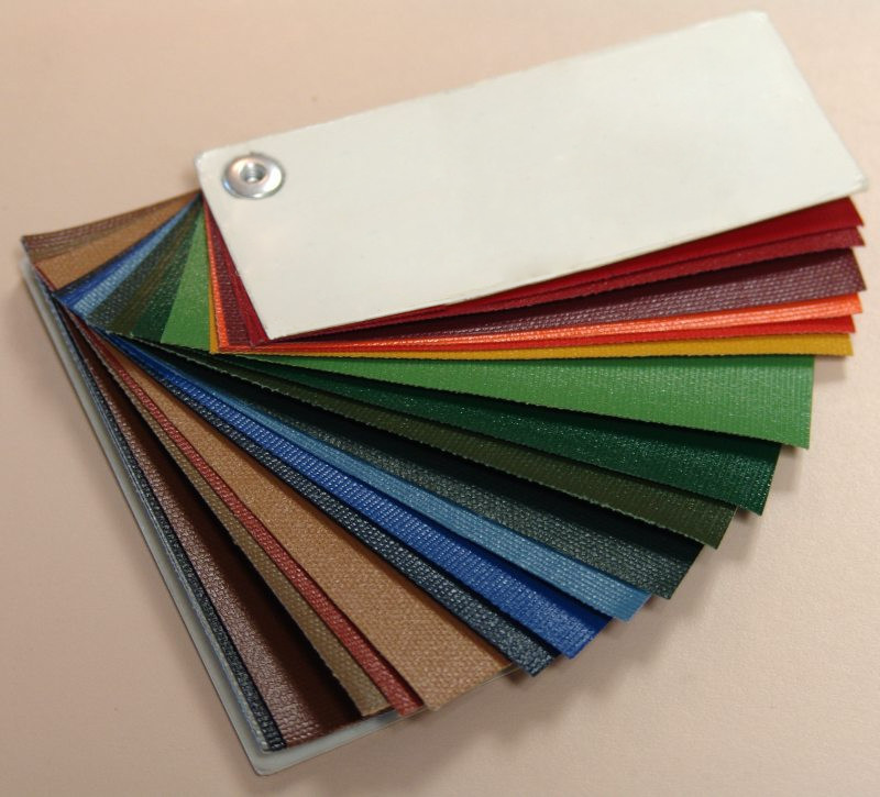 This photo was taken on June 8, 2004, with a Sony Cybershot DSC-F828, in the Homer Babbidge Library. The image was level-adjusted, cropped, scaled from 1686x1527 to 800x725, and saved at a quality of 0.83 with The Gimp. The photo depicts a variety of buckram color swatches. The samples are courtesy of the preservation department at the Homer Babbidge Library.